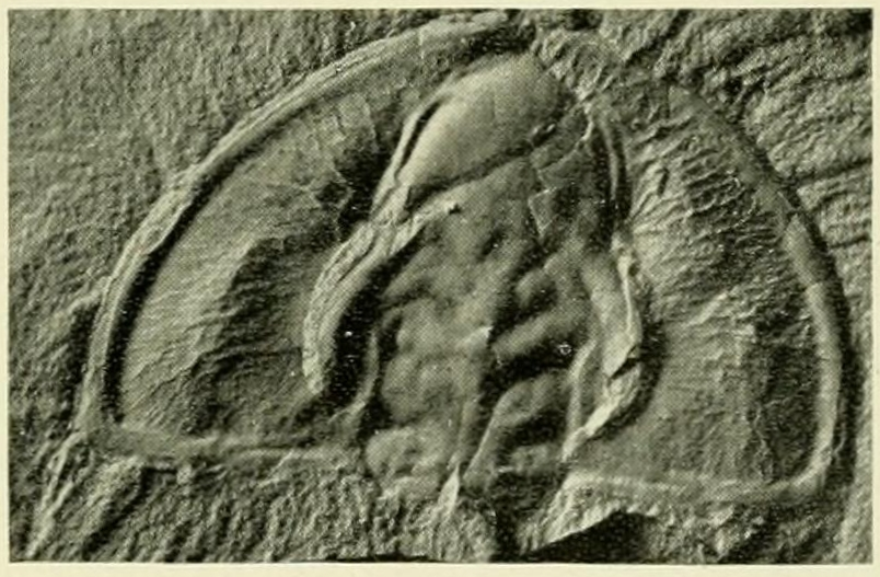 Fritzolenellus truemani (Walcott, 1913) Olenellus truemani; Walcott 1913:316, pl. 54, figs. 2, 6, and 8; Walcott 1916, pl. 17, figs. 2, 6, and 8; Fritz 1992:15, pl. 6, figs. 1–4, pl. 7, figs. 1–6, and text fig. 6b. Fritzolenellus truemani (Walcott); Lieberman 1998:72; Lieberman 1999:95, pl. 17, fig. 1. Catalog record: USNM PAL 60087 Original historic description: PAGEOlenellus truemani Walcott316Fig.6. (Natural size.) Cephalon with outer test of cheeks exfoliated so as to show casts of radial canals. (Locality 61k.) U. S. National Museum, Catalogue No. 60087. The specimens represented by figs. 2-10 are from locality 61k. Lower Cambrian: Mahto formation; dark, hard siliceous shale, northeast base of Mumm Peak above Mural Glacier on the west side of Hitka Pass, 6 miles (9.6 km.) in a direct line north of summit of Robson Peak and northwest of Yellowhead Pass, in western Alberta, Canada.